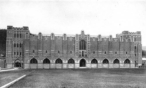 The original and oldest portion of the current Arvin gym complex